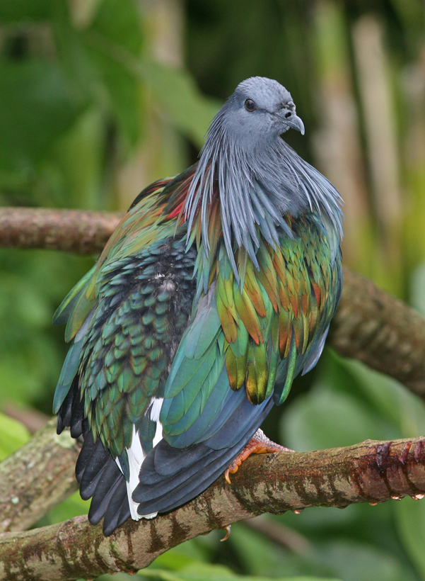 Nicobar Pigeon (Caloenas nicobarica)